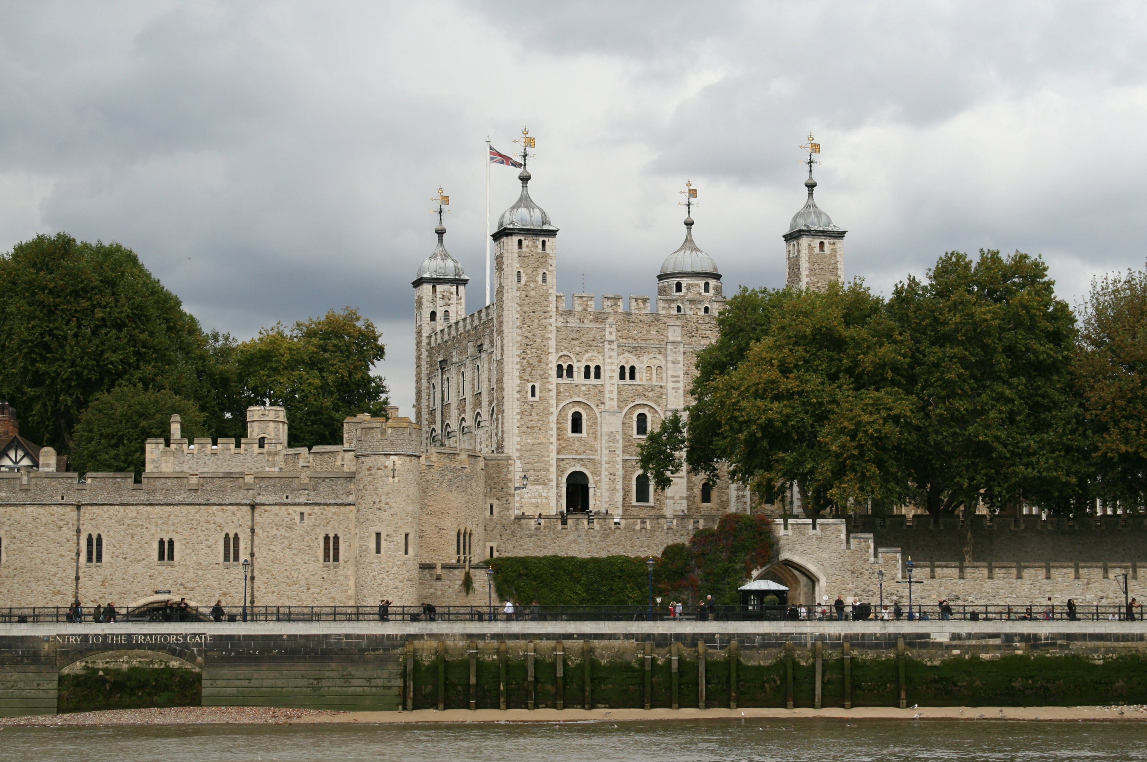 In and around London